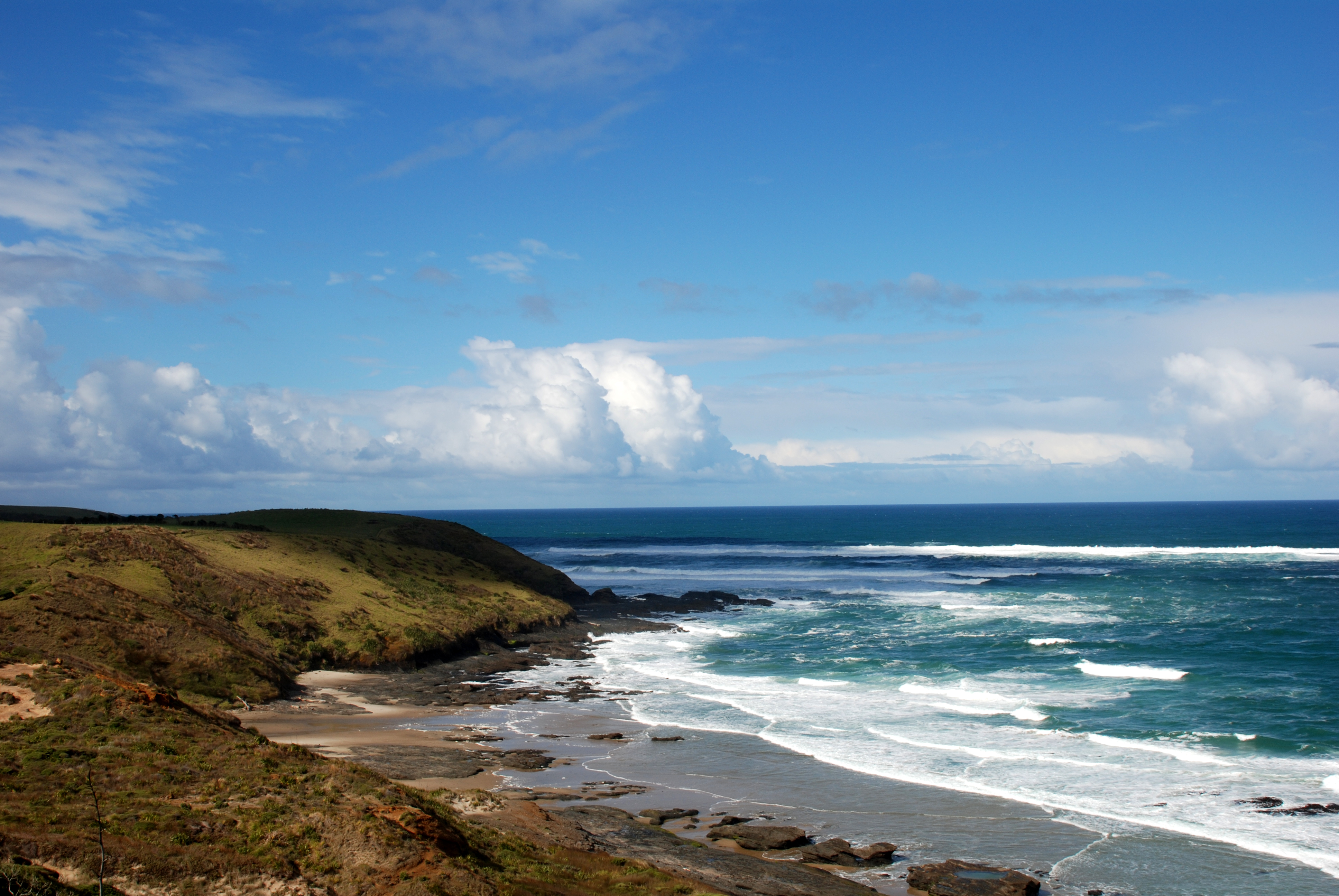 Tasman Sea from Hokianga South Head.